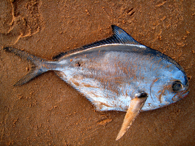 Drums Links: Atlantic pomfret An Atlantic pomfret (Brama brama) dead on the beach just south of the Ythan estuary. Also known as a Ray's bream this is a deep water fish only rarely found washed up on the beach. More detail can be seen at